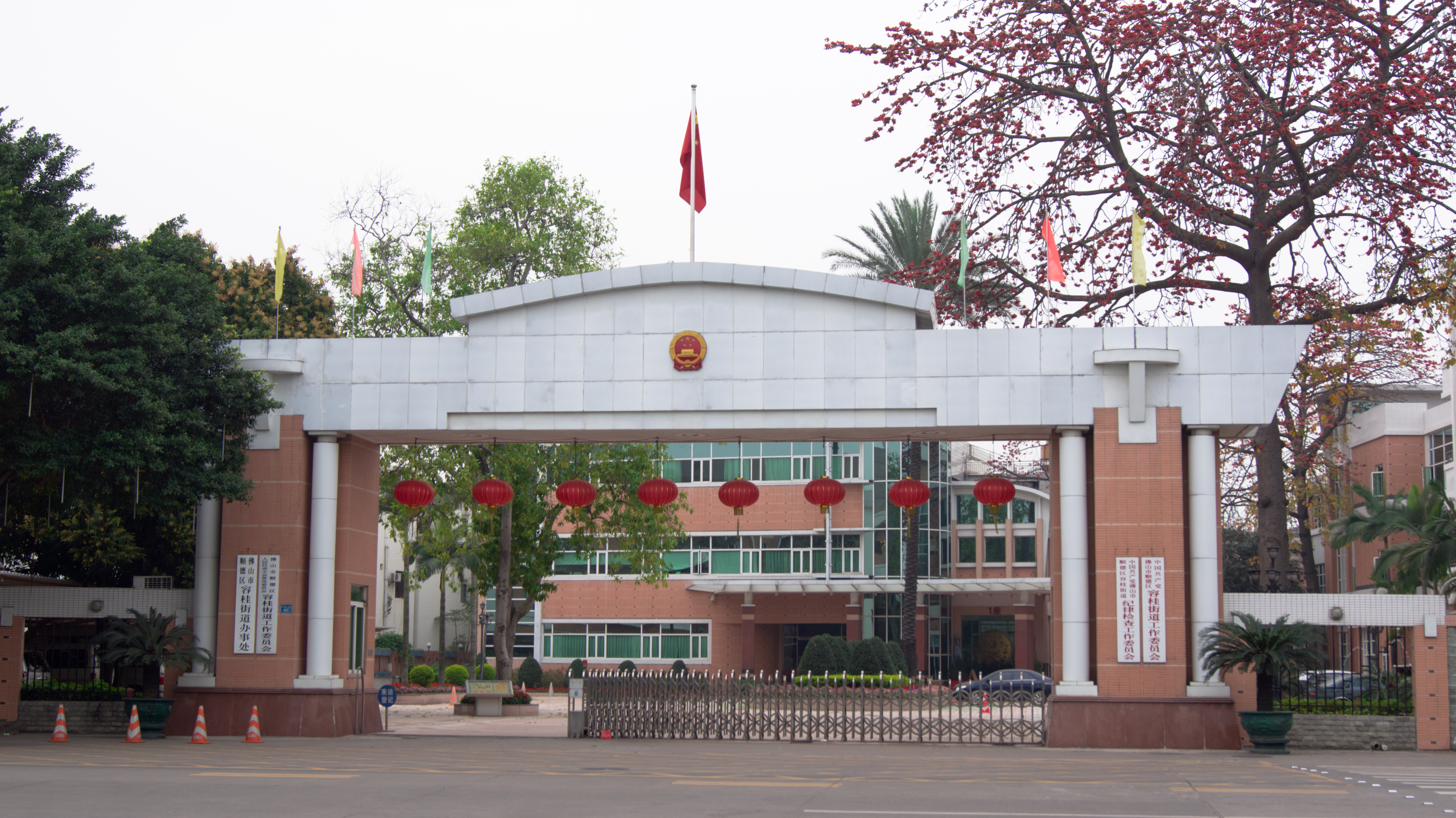 Government of Ronggui, Shunde District, Foshan, Guangdong, China.